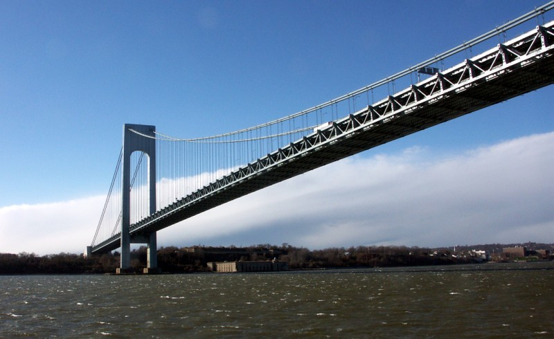 Verrazano Bridge from a ferry boat.